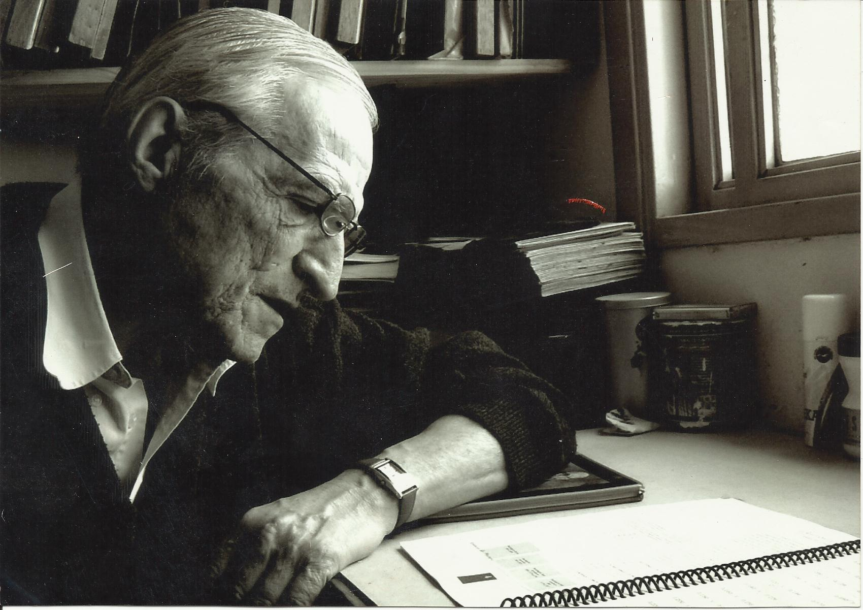 Roberto Bosco en su estudio